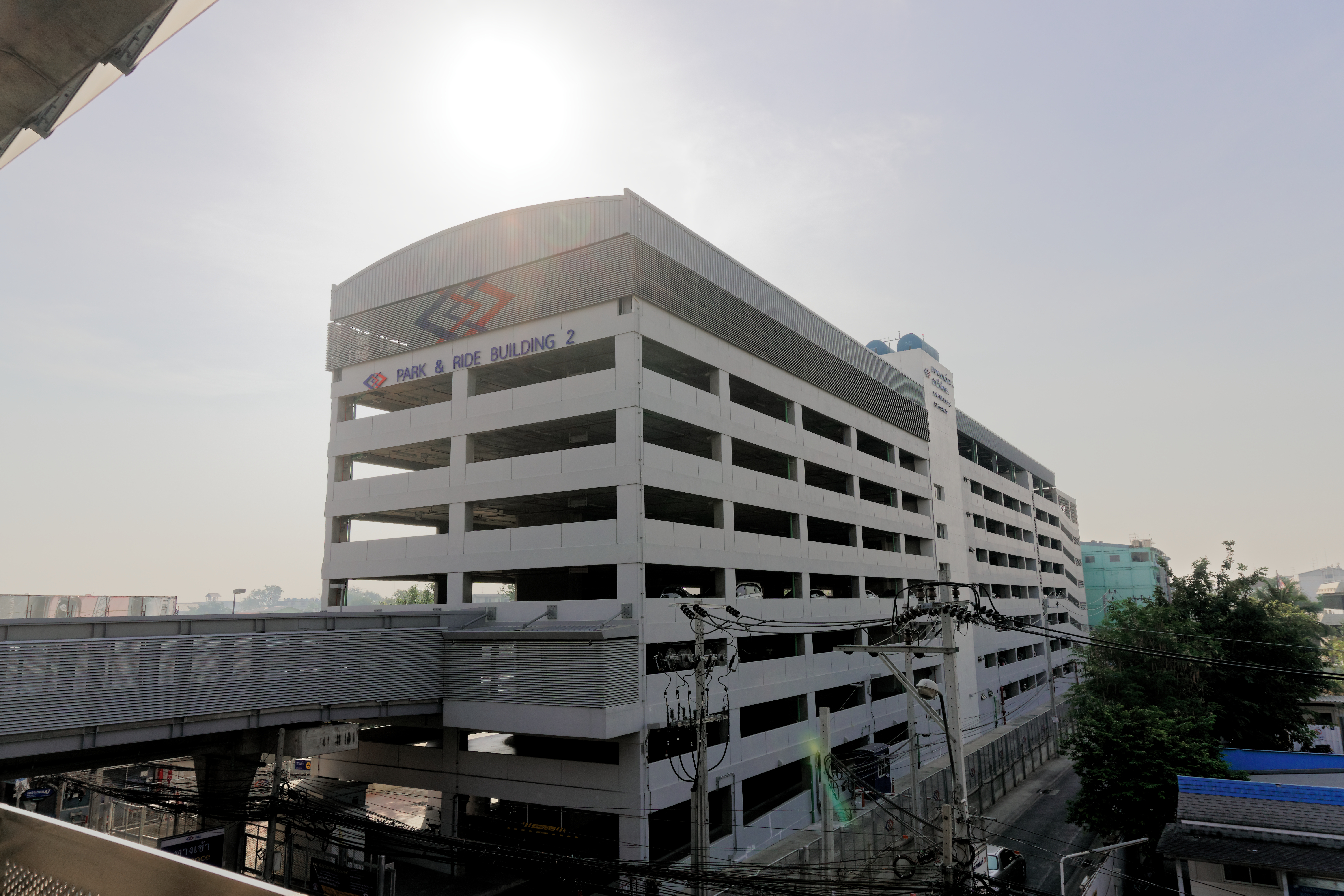 MRT Lak Song station - Park & ride building #2